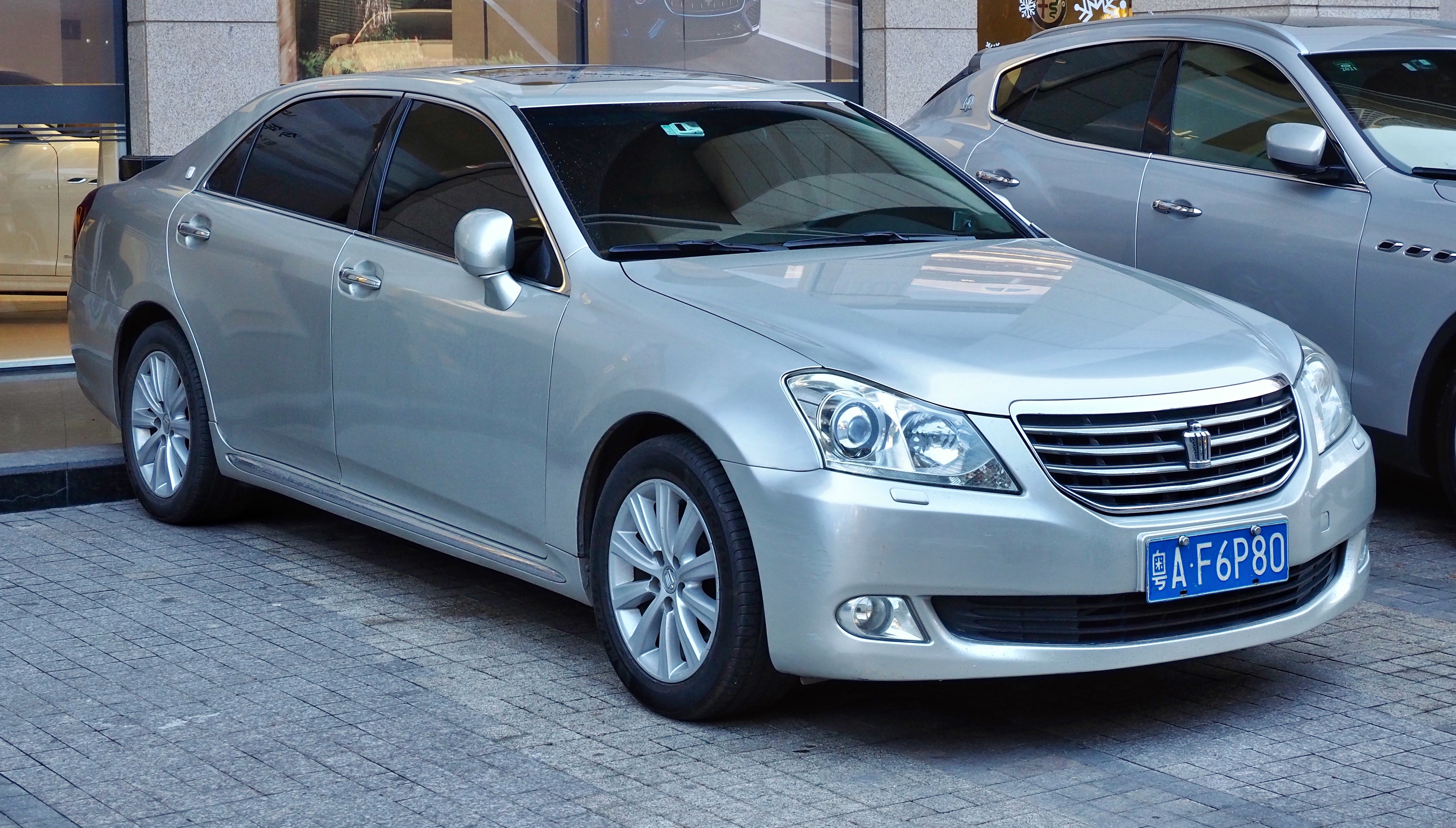 A 2009 FAW-Toyota Crown photographed in Shantou, Guangdong province, China. 中文（中国大陆）: 一辆2009年的一汽丰田皇冠，拍摄于中国广东省汕头市。